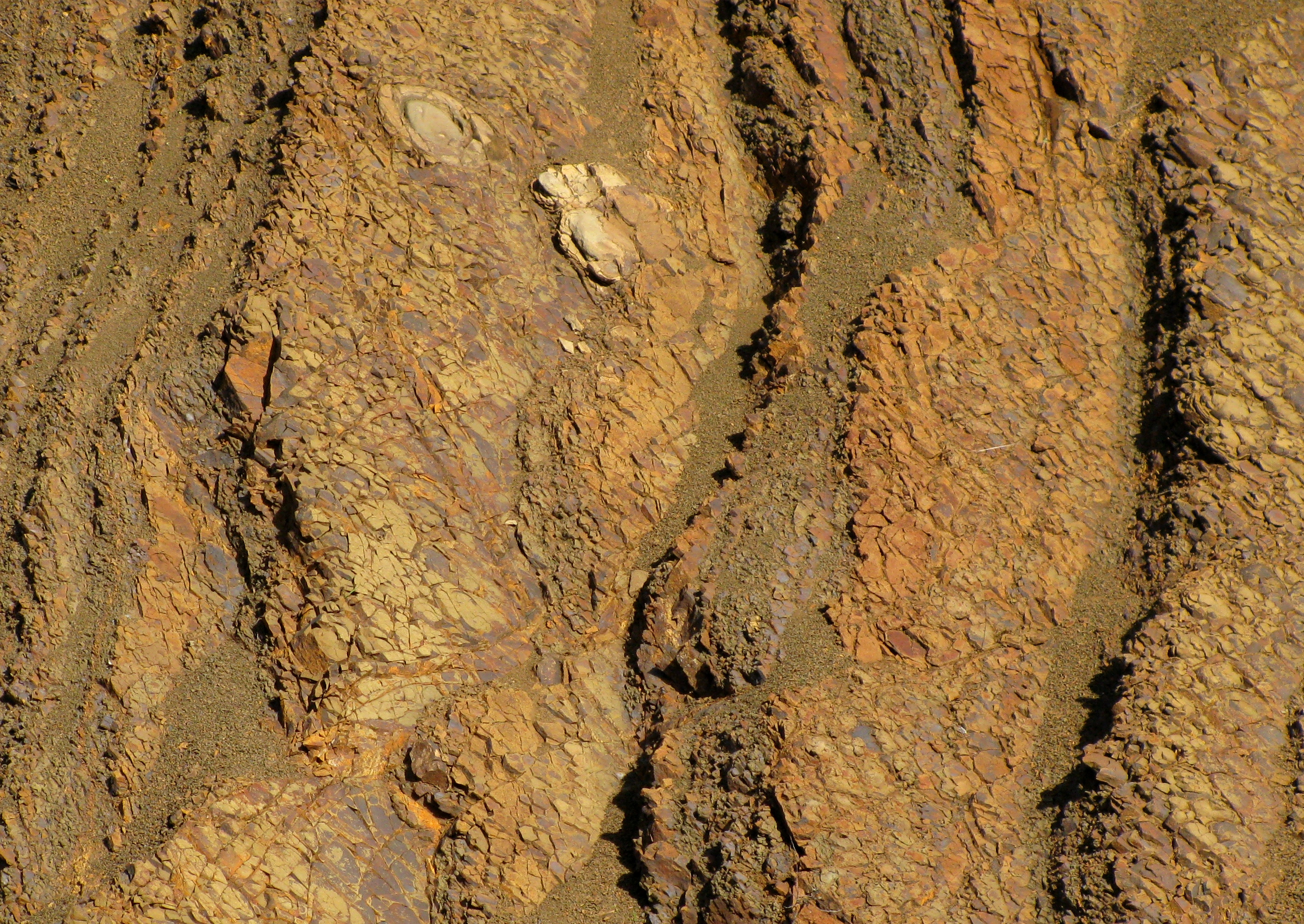 Close view of Espada Formation. SB County, CA, photo by self, GFDL etc. Scale of this photo is 6-7 feet (2 meters) across; forgot to put my rock hammer in the pic.